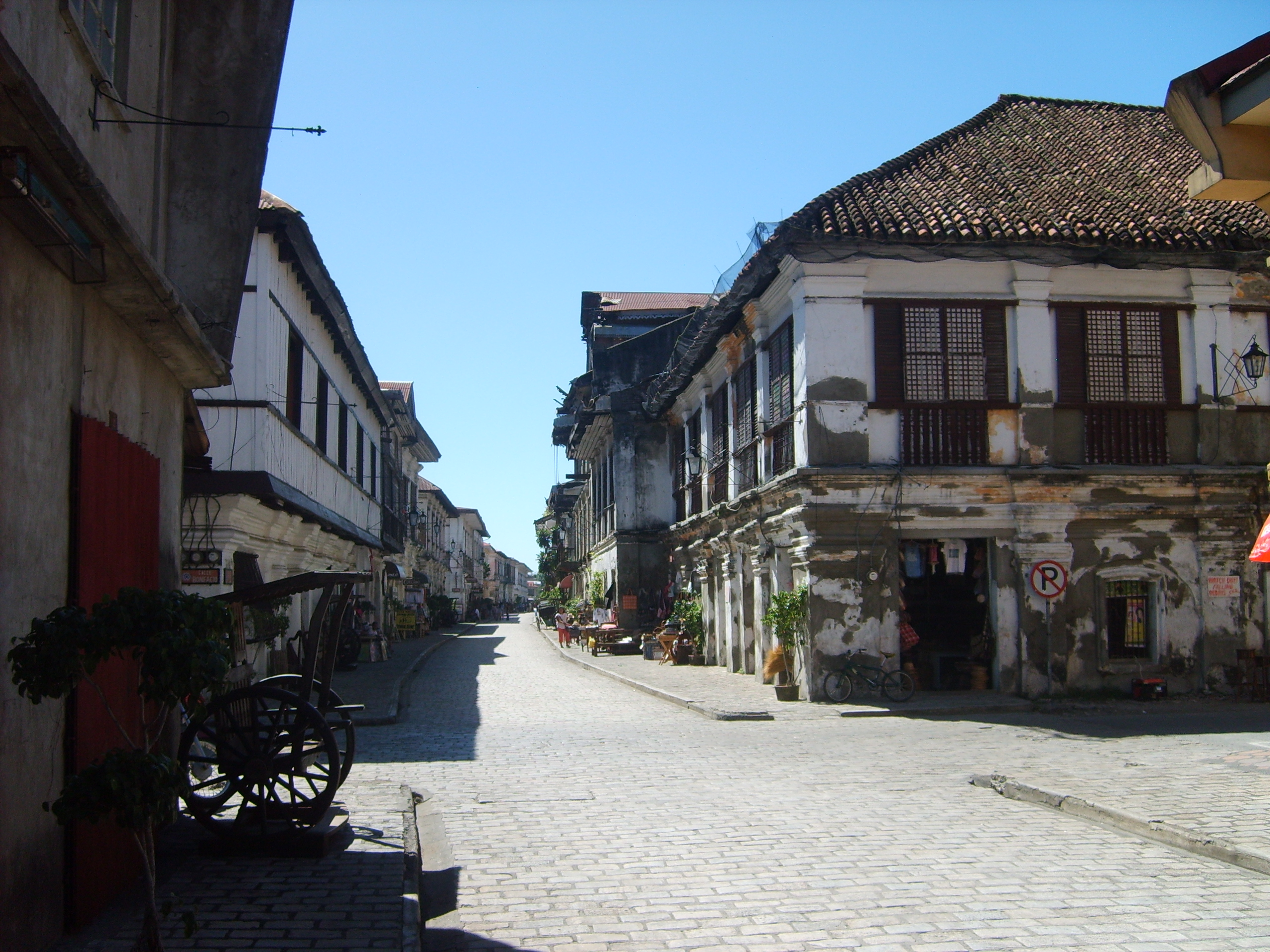 Spanish colonial architecture on Calle Crisologo, Vigan, Ilocos Sur, Philippines.